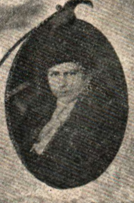 Ivan Tsvetkov, IMARO